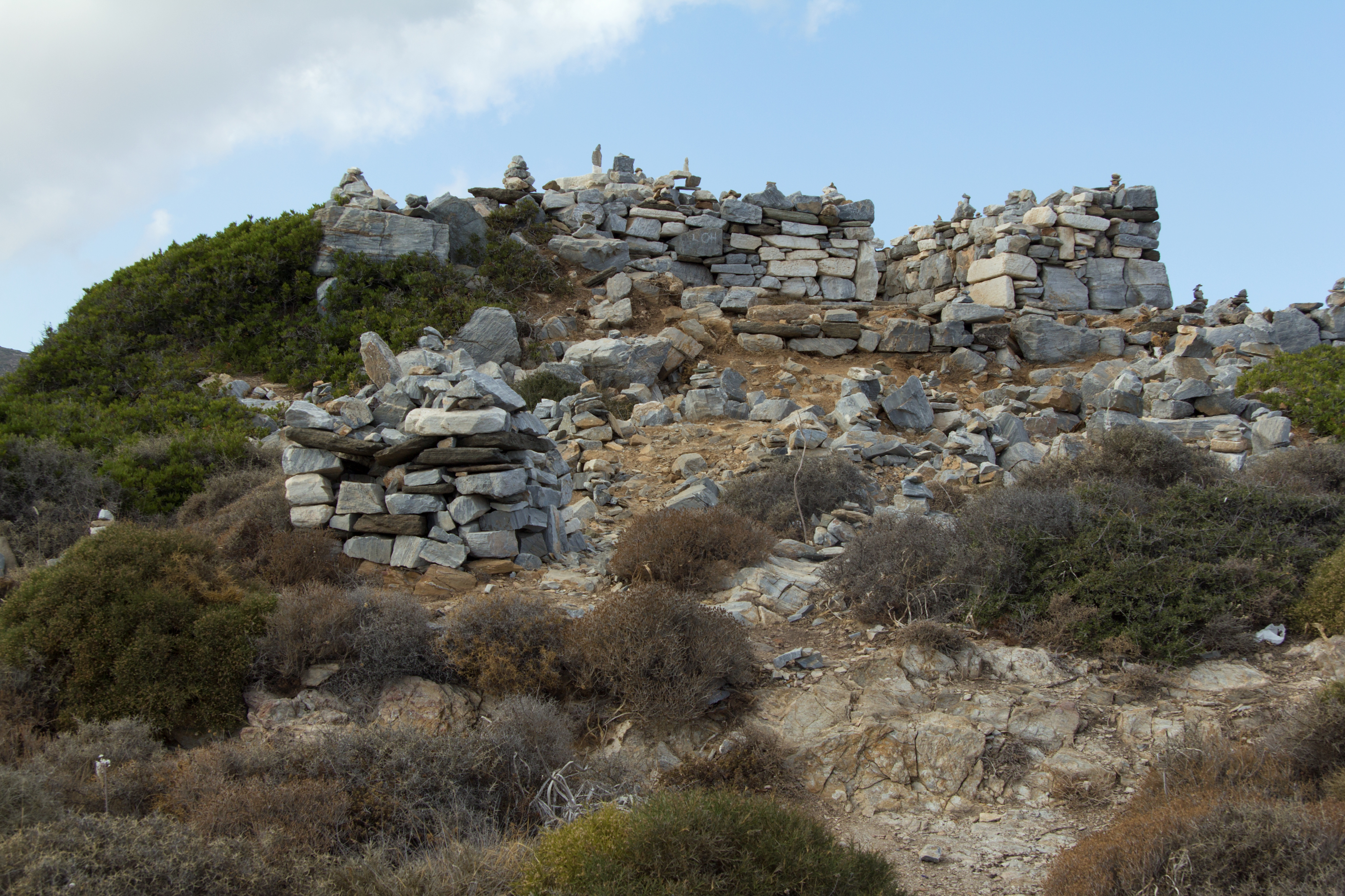 Tomb of Homer on the island of Ios. View from the sea.